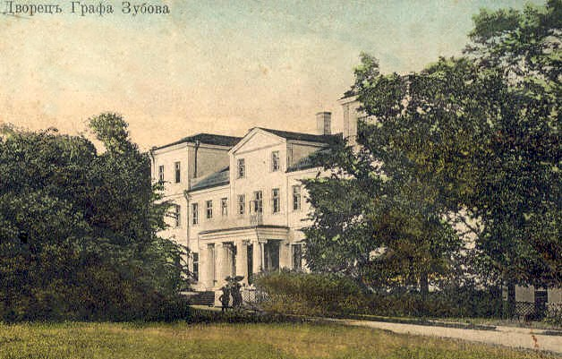 Photo of Zubovai Palace in Šiauliai.